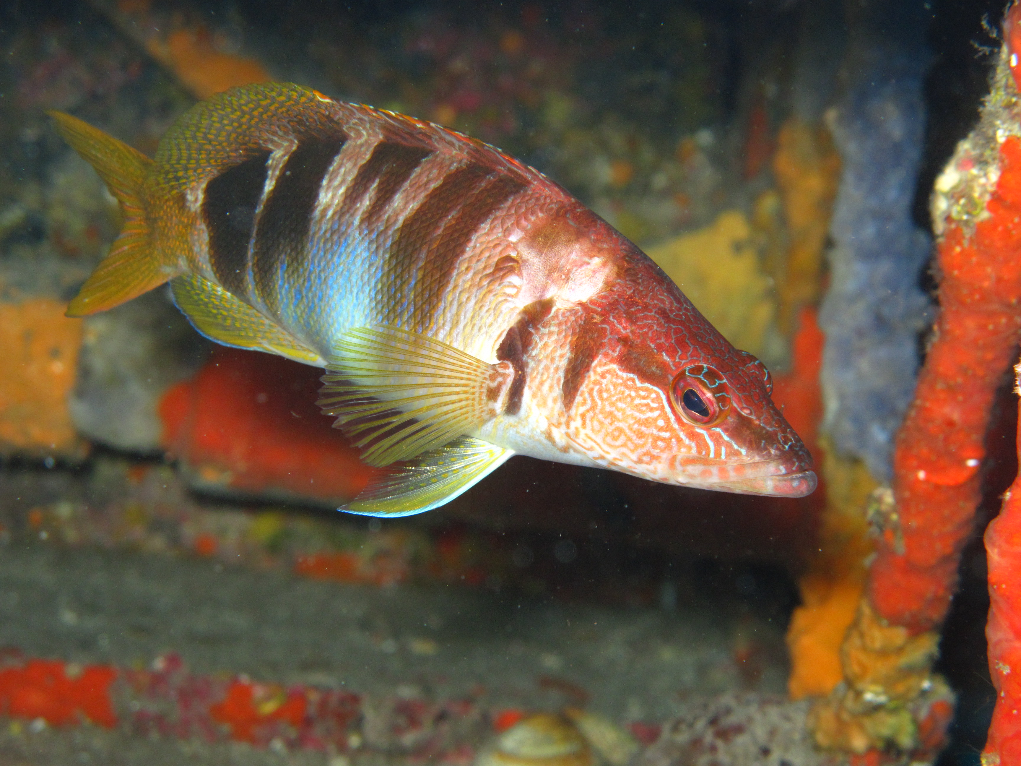 Serranus scriba - Mediterranean Sea - Corsica - Calvi